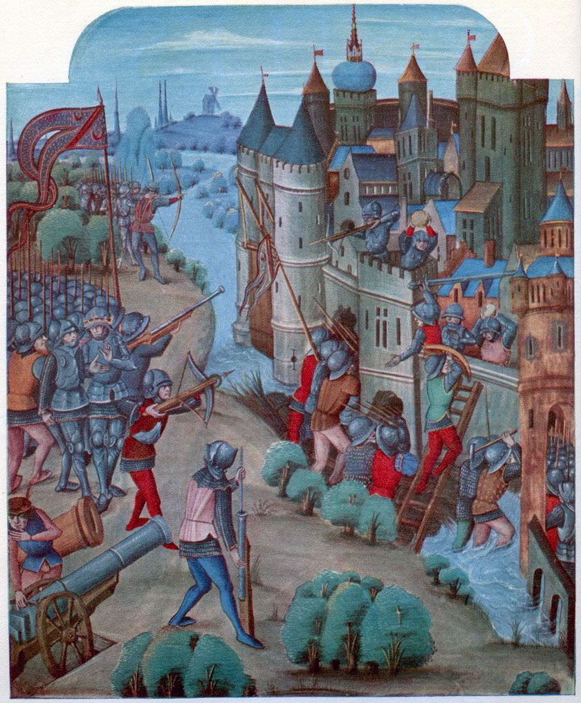 "A siege of the fifteenth century, from a manuscript belonging to Edward IV., now in Sir John Soane's Museum. The walls, having been breached by artillery, are being stormed through the breaches; the stormers are covered by the fire of hand-gun-men, crossbowmen and archers."